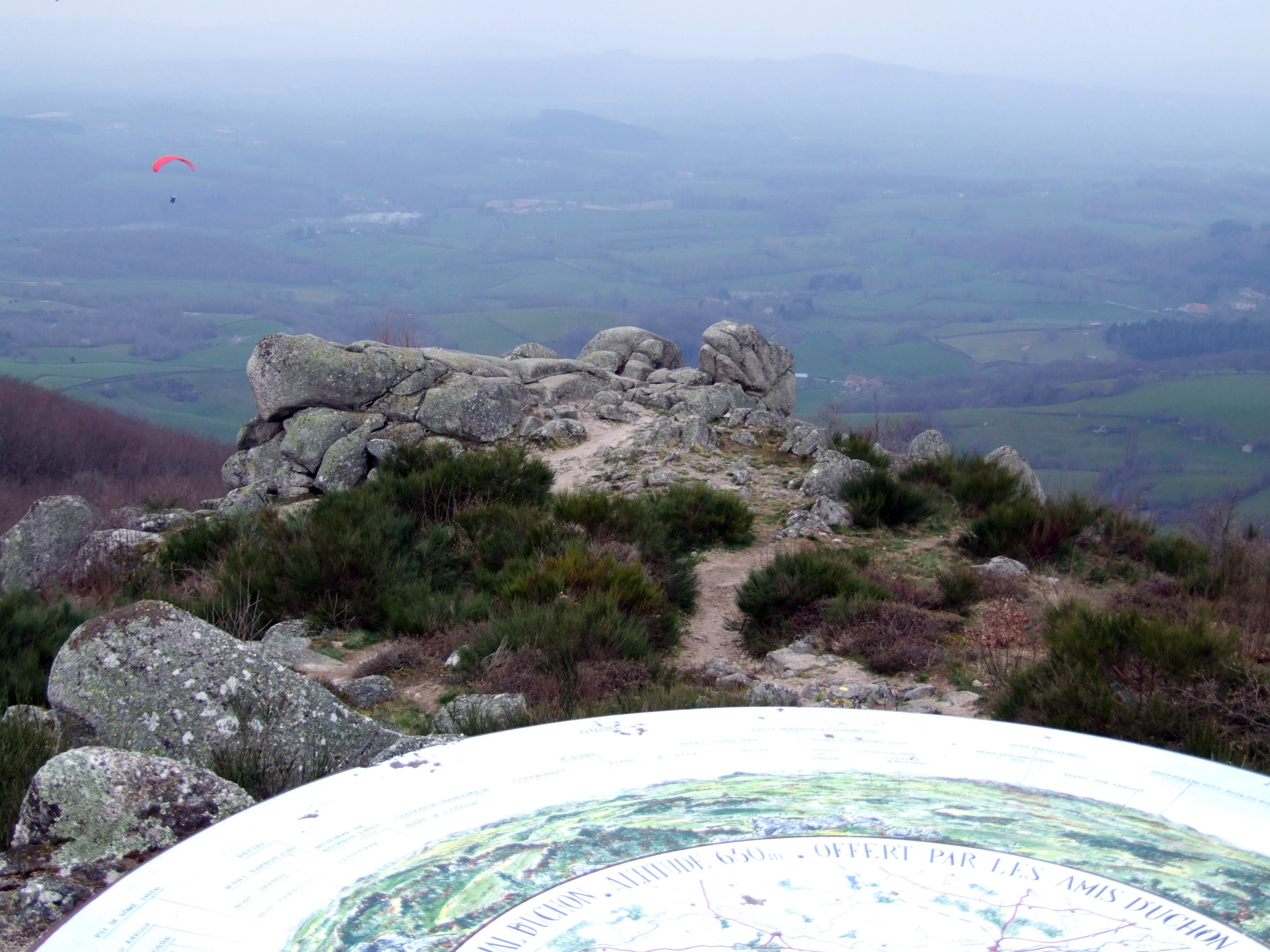 Uchon, Burgundy, FRANCE